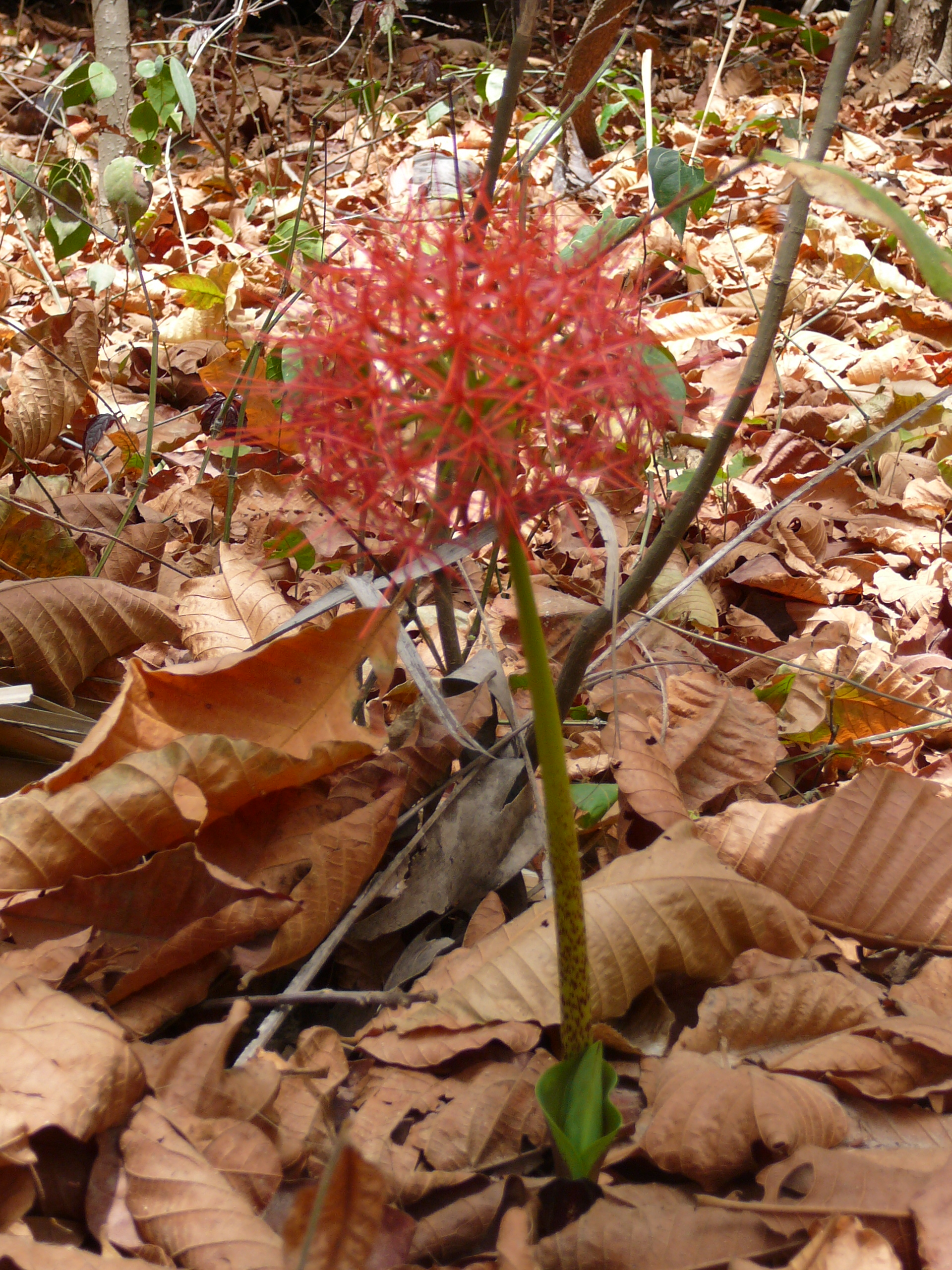 Fireball lily or Blood lily